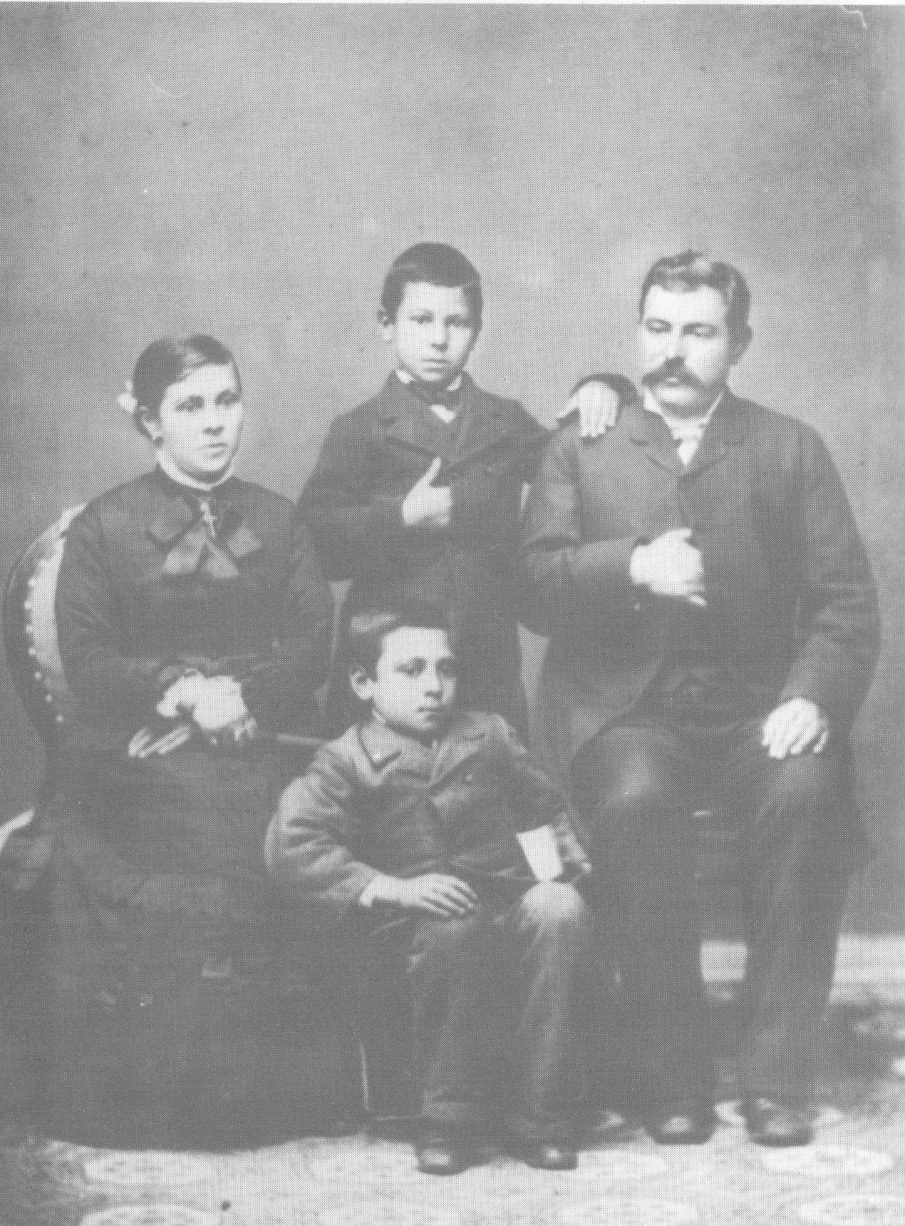 Dimitar Burov (1839–1903) - Bulgarian contractor and banker with his family, 1883